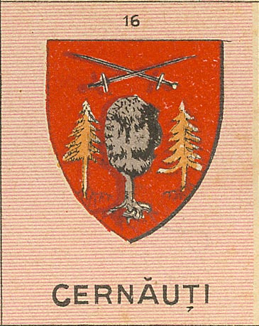 Interwar coat of arms of Cernăuți County, Kingdom of Romania.